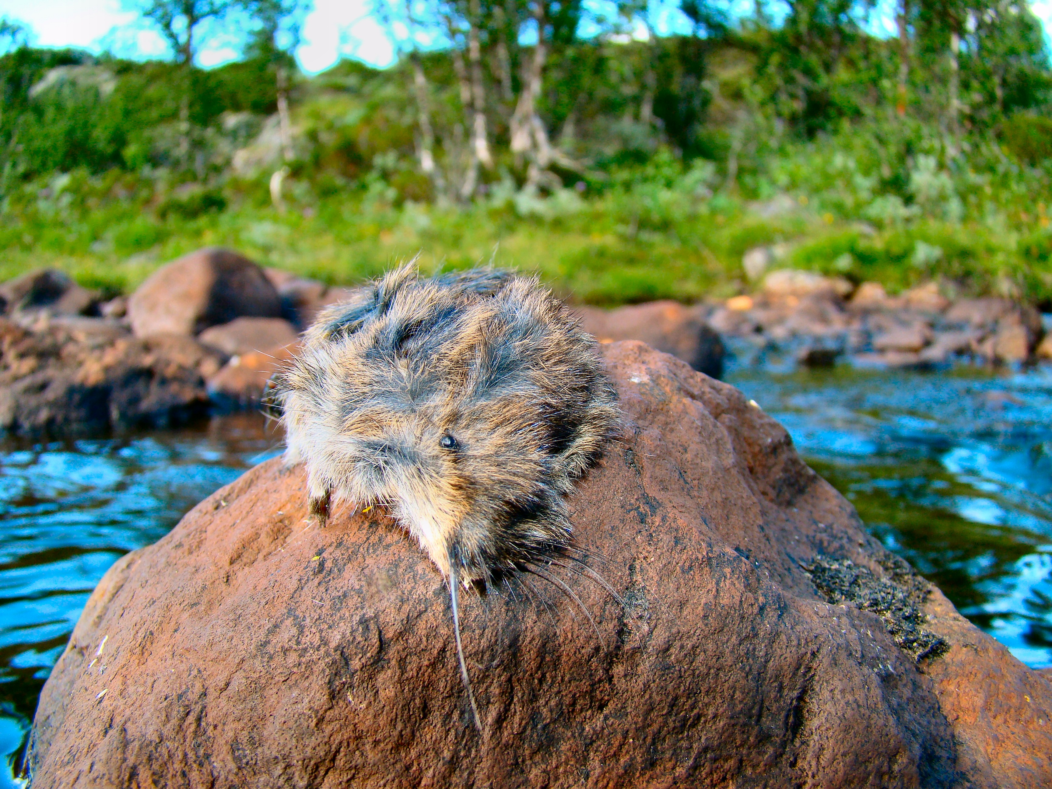 A dead lemming on a stone in the river Revåa in Norway. Lemmings migrate in large numbers across the landscape, stopping for nobody. When they have to cross a river of some size, some lemmings will die. Every few years so many lemmings die this way that drinking the water from the streams becomes a health hazard to people hiking in the mountains.